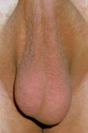 Human Testicles